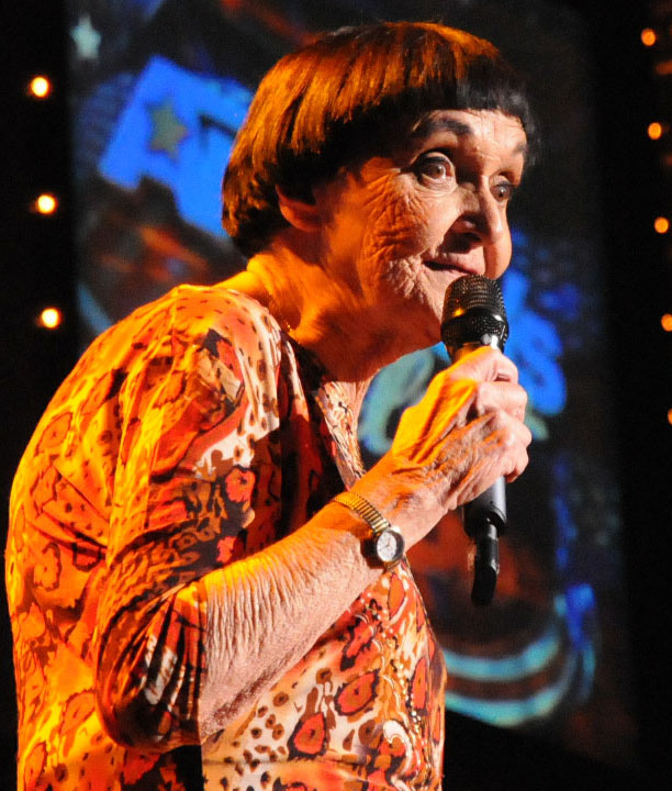 Grandma Lee seen on stage at America's Got Talent in Vegas. She starts her show with "Cut the Crap"!